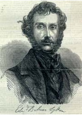 Edward Bulmer-Lytton-source for Aroldo by Verdi